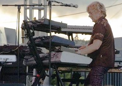 Geoffrey Downes in concert with Asia in Norwalk, CT.